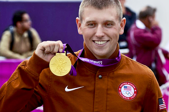 In double record-setting fashion, Sgt. Vincent Hancock became the first shotgun shooter to win consecutive Olympic gold medals in men’s skeet on Tuesday at the Royal Artillery Barracks. Hancock, 23, a Soldier in the U.S. Army Marksmanship Unit from Eatonton, Ga., eclipsed his own records set at the 2008 Beijing Games for both qualification (123) and total (148) scores. He struck gold in China with a qualification score of 121 and total of 145. Hancock prevailed by two shots over silver medalist Anders Golding (146) of Denmark and by four shots over Qatar’s Nasser Al-Attiya (144), who secured the bronze medal by winning a shoot-off against Russia’s Valeriy Shomin.